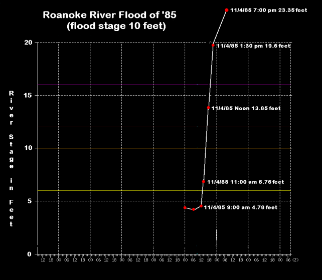 Hydrograph of the Roanoke River at Roanoke (RONV2) gauge starting mid-morning, November 4, 1985.